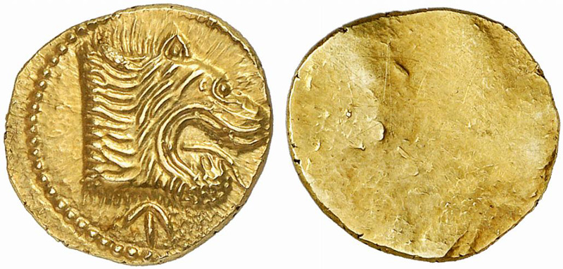 Italy,Etruria, Populonia. Circa 380-350 BC. AV 50 Asses (2.75 g). Lion’s head to right with open jaws and extended tongue; below Etruscan numeral for 50. Rev. Blank. AMB 8 (same dies).